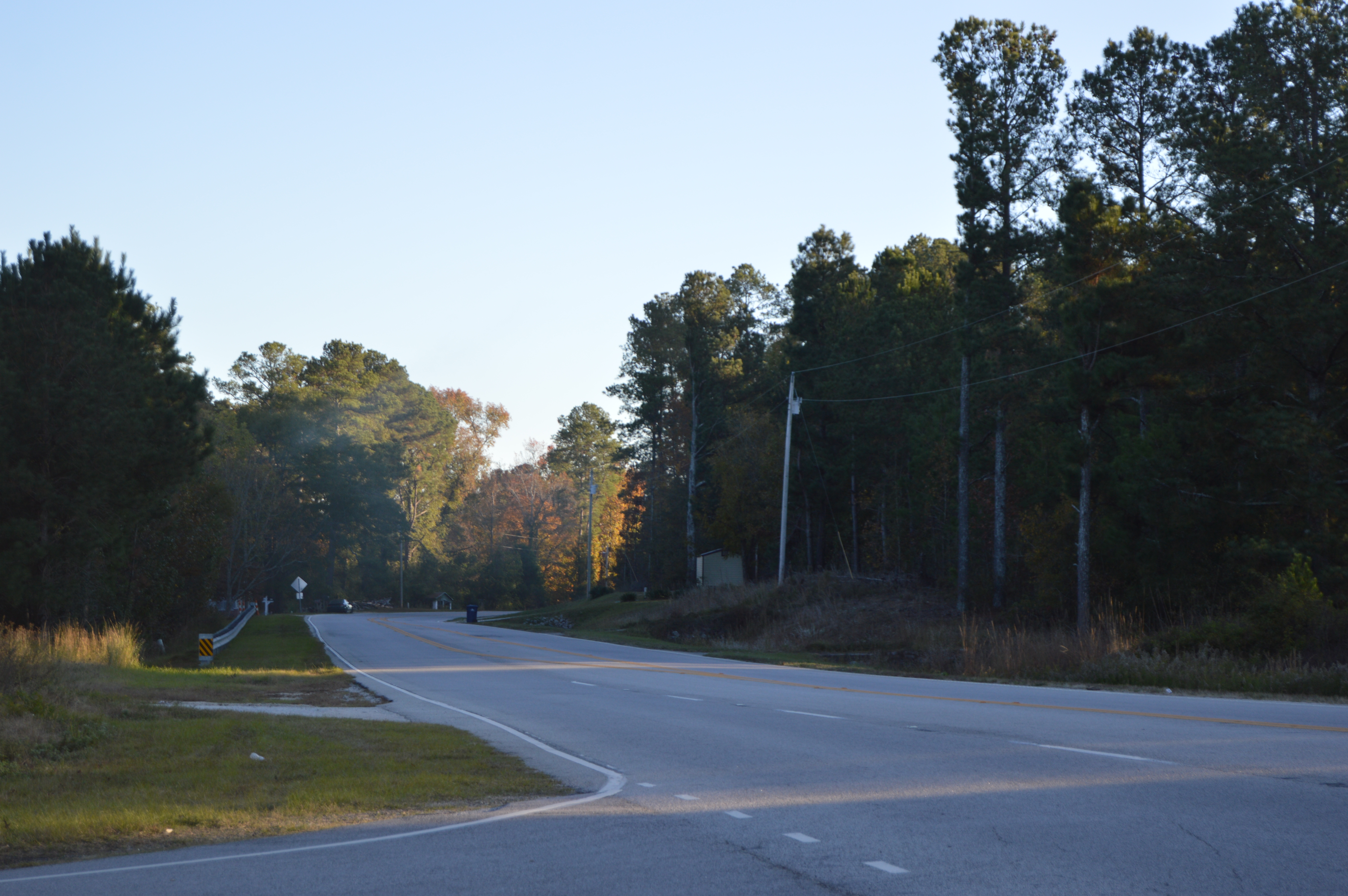 Looking southward on South Carolina Highway 912 from the Brickyard Road intersection northwest of Bennettsville in Marlboro County, South Carolina, United States.